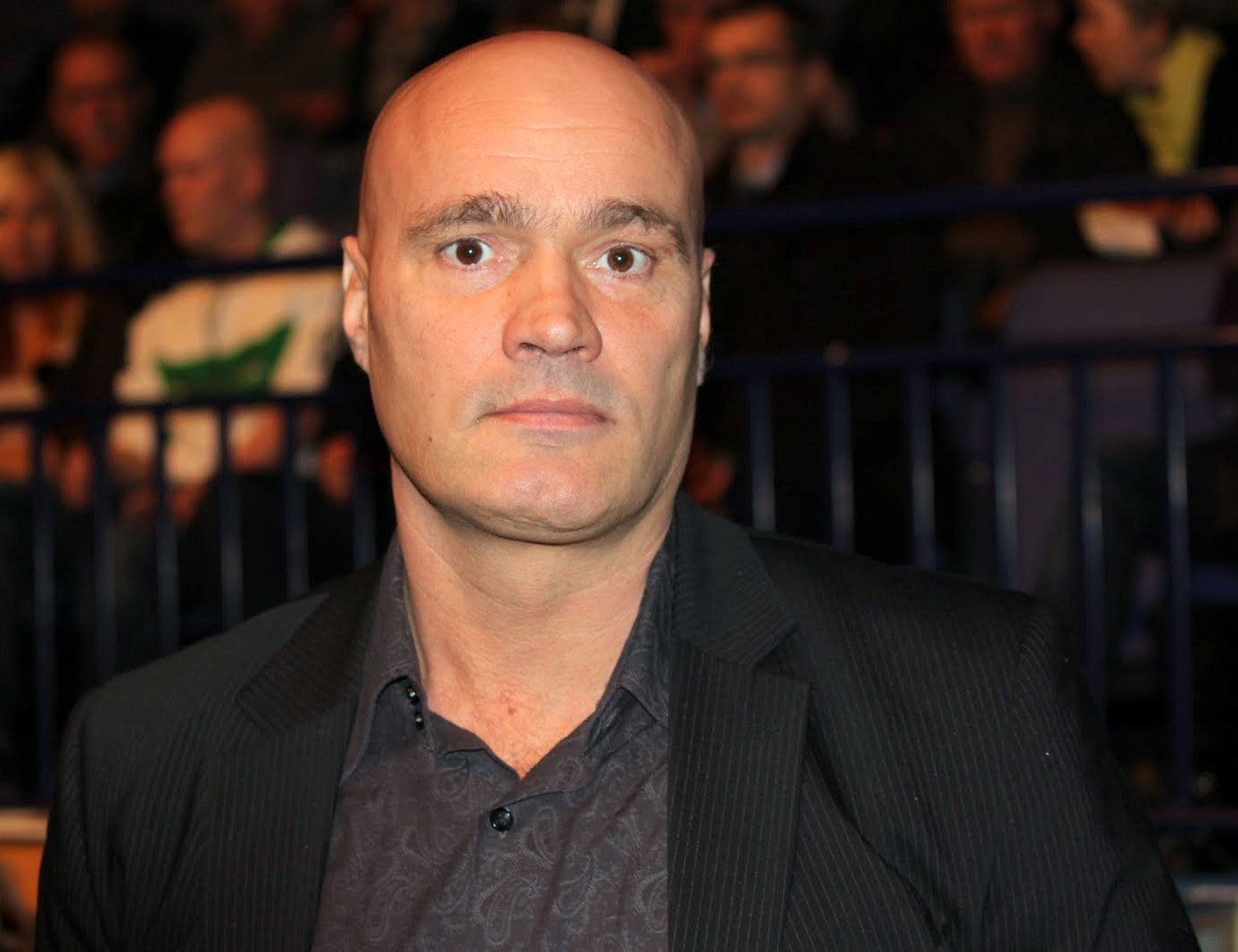 A Finnish boxer, Jukka Jarvinen.